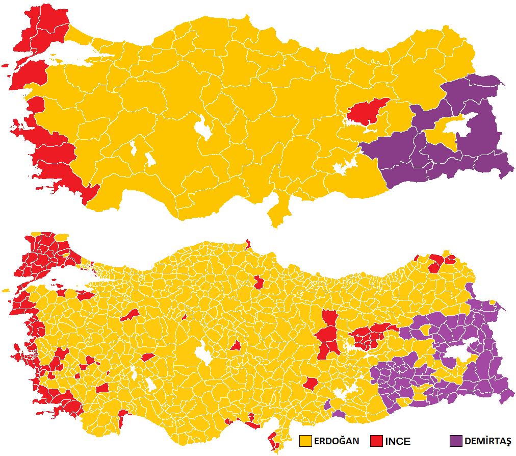 Results by province of the 2018 Turkish presidential election